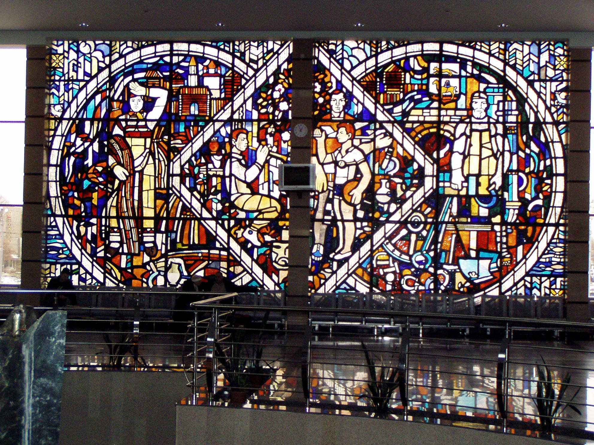 Window in the railway station of Chelyabinsk (Ural, Russia)